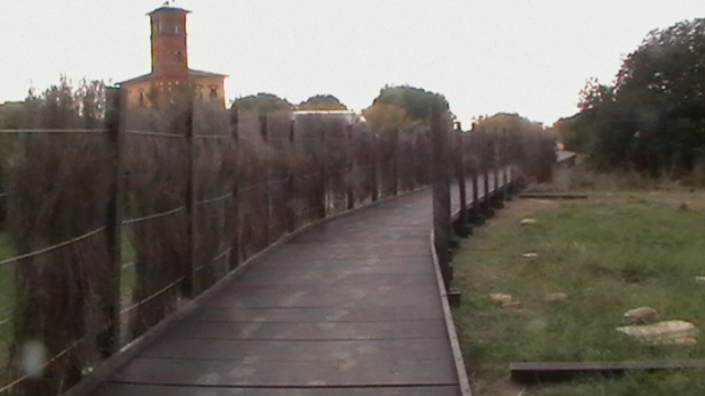 Pedestrian bridge totally made with recycled plastics material from bottles and little bags. Lenght 220 m. It is located in Parco della Maremma near Grosseto Italy. The weight is approx 24.000 Kg .